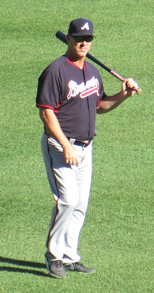 Marty Reed of the Atlanta Braves, June 17, 2016.